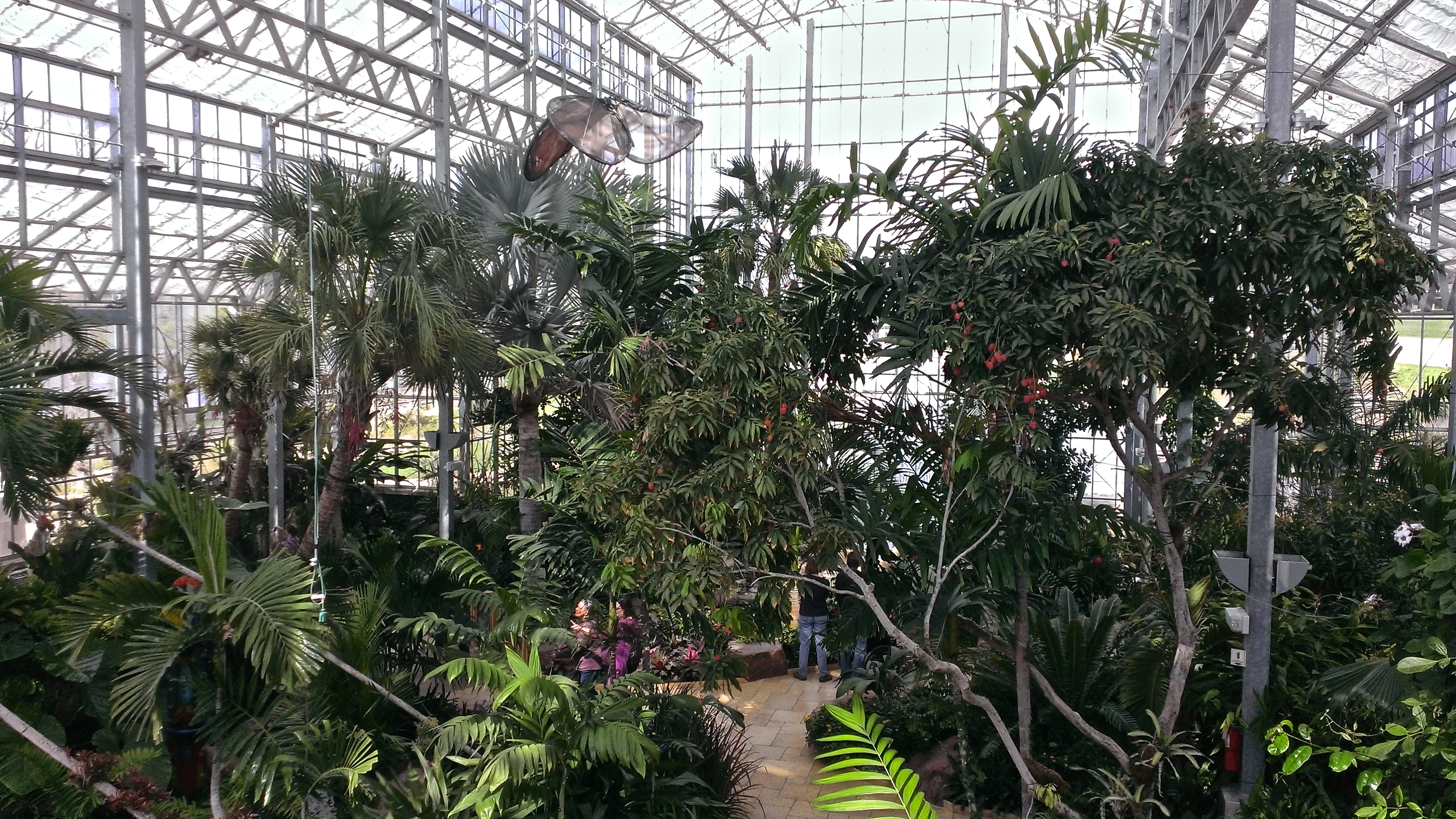 Interior of the Nicholas Conservatory in Rockford, IL